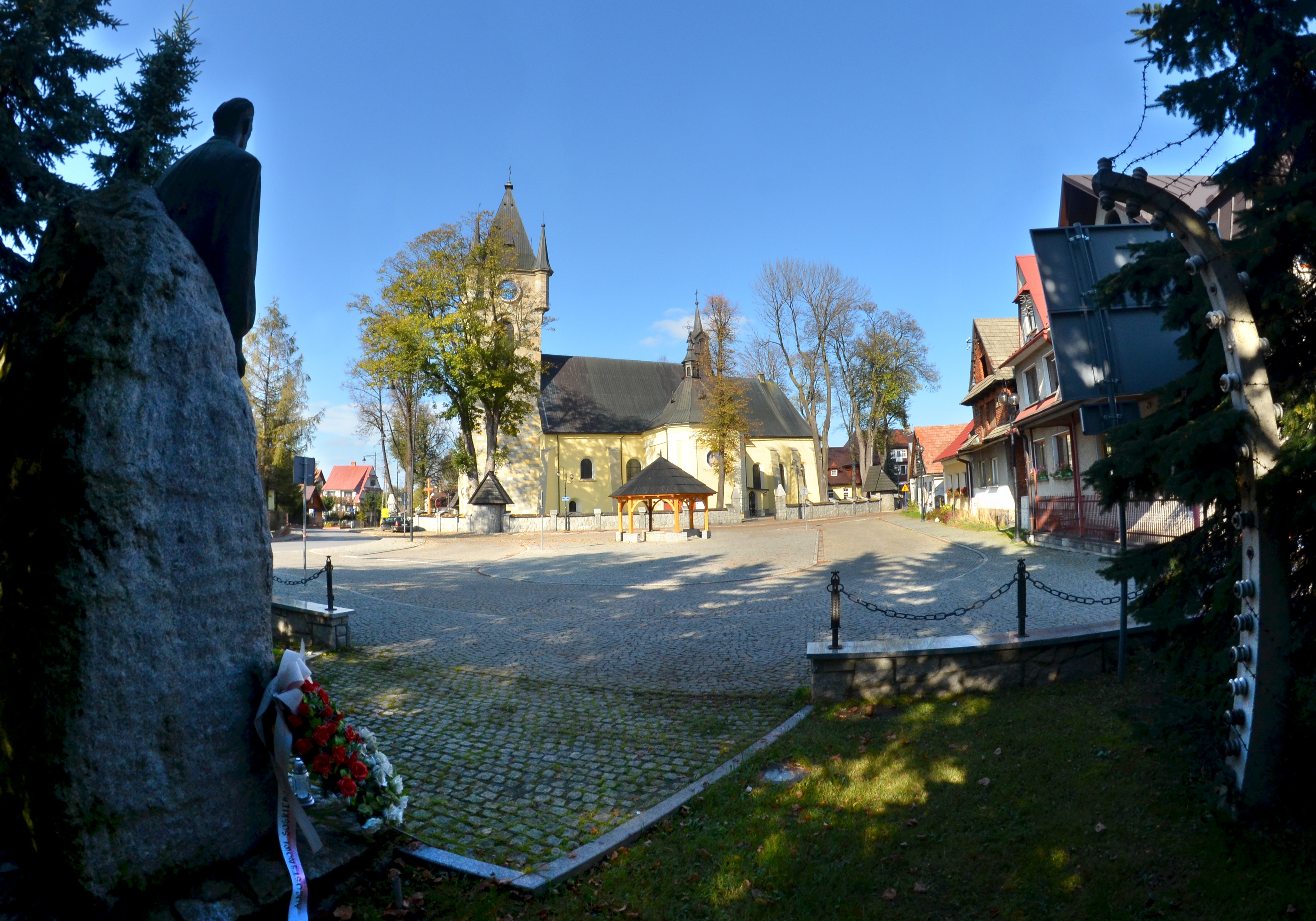 Monument of Augustyn Suski and church in Szaflary